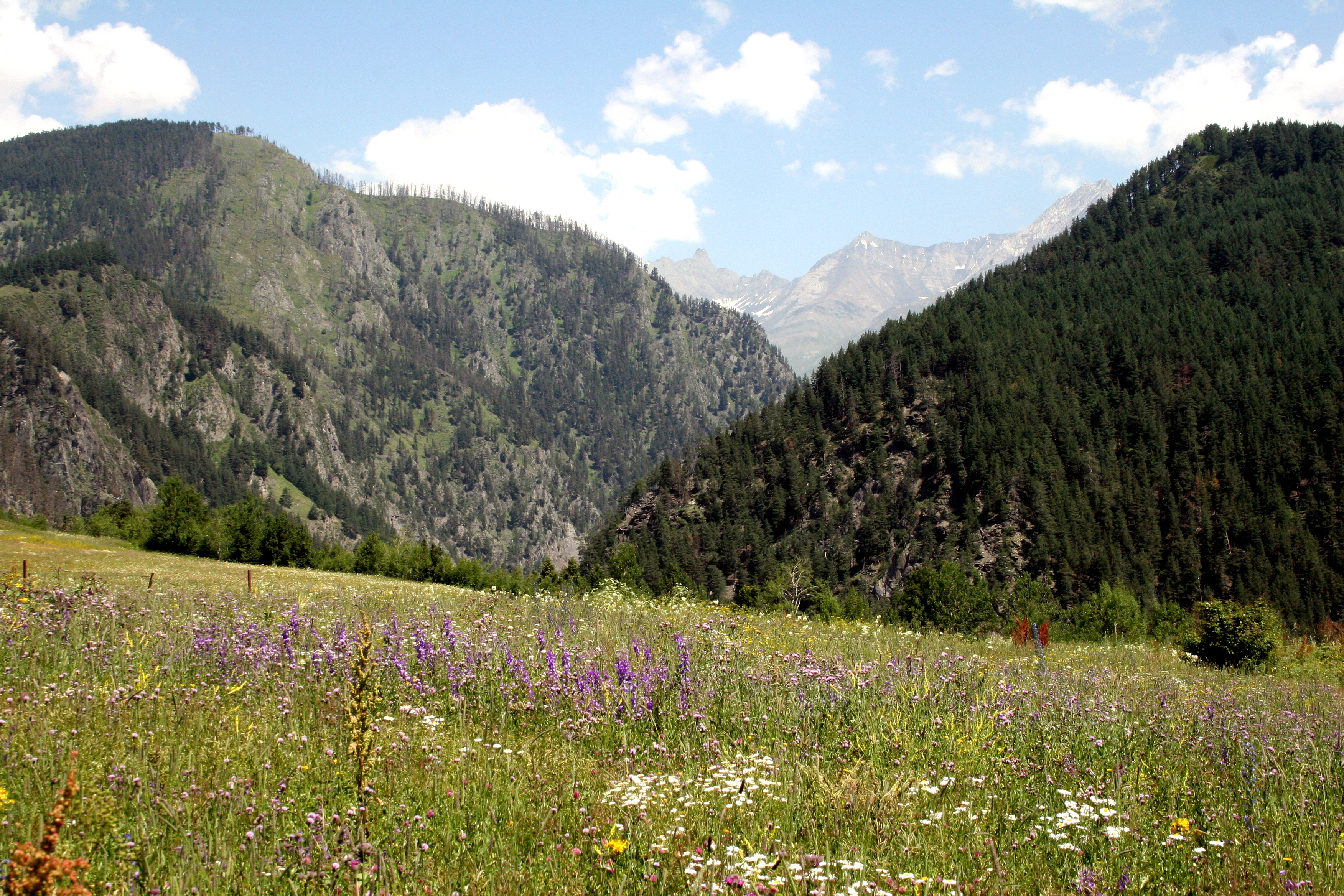 Tusheti, view from Qvemo Omalo